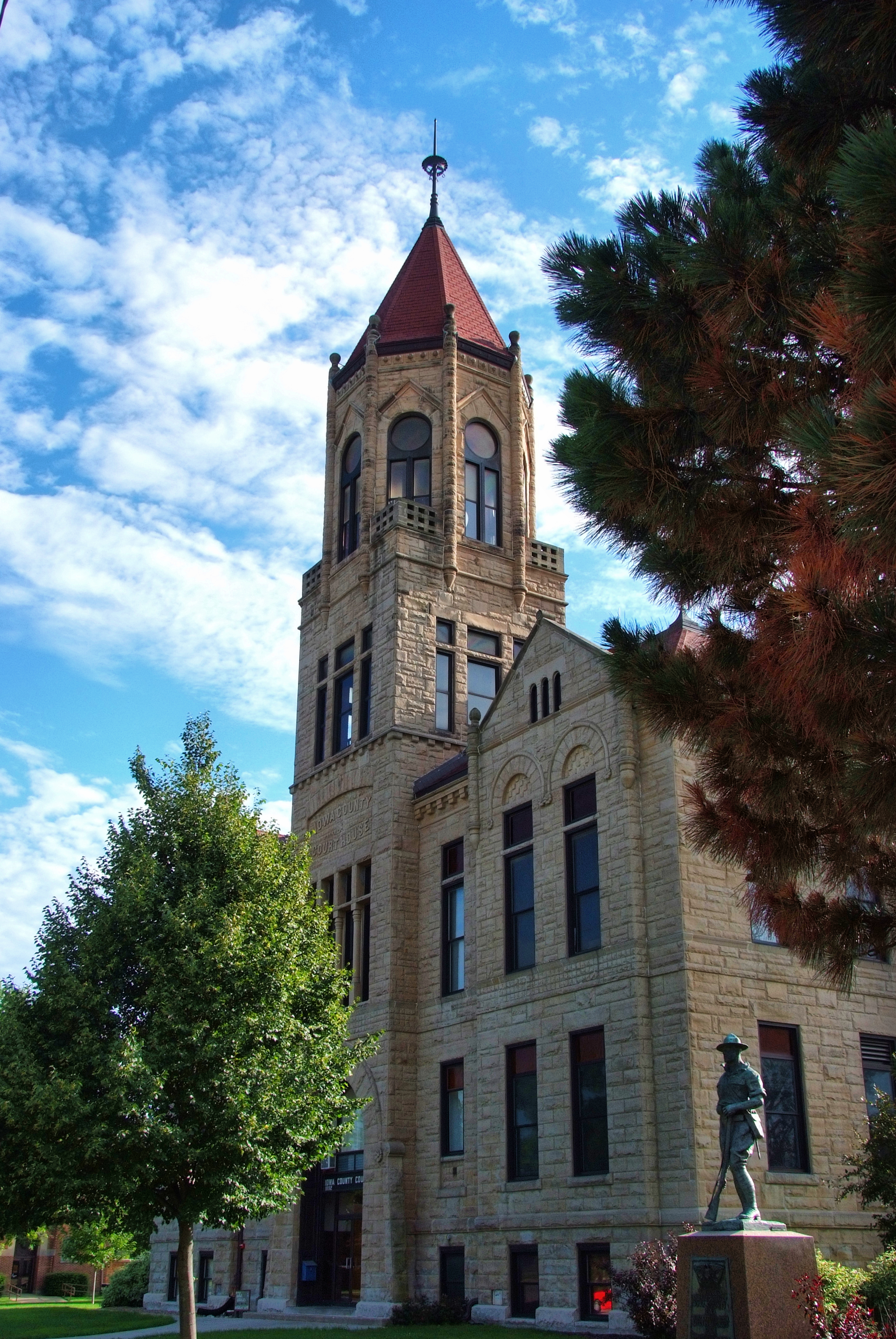 Front of the Iowa County Courthouse, located on Main Avenue in downtown Marengo, Iowa, United States. Built in 1892, the courthouse is listed on the National Register of Historic Places.